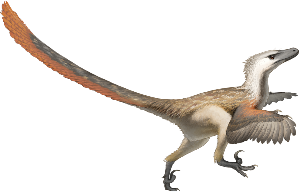 Velociraptor mongoliensis